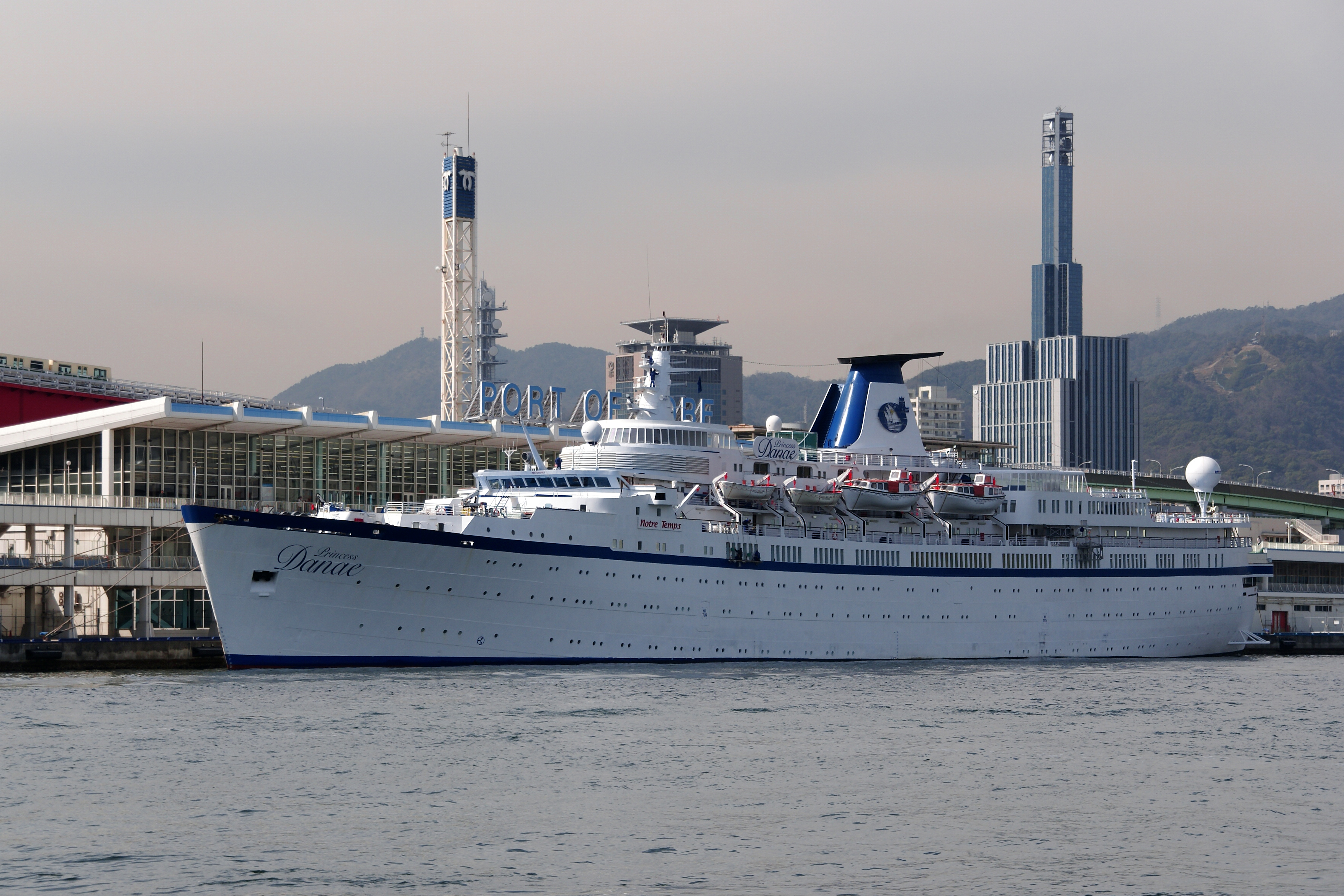 Princess Danae at the Kobe Port Terminal of Kobe Port, Kobe Hyogo prefecture, Japan